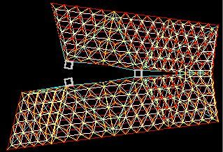 Flat Coverage structure